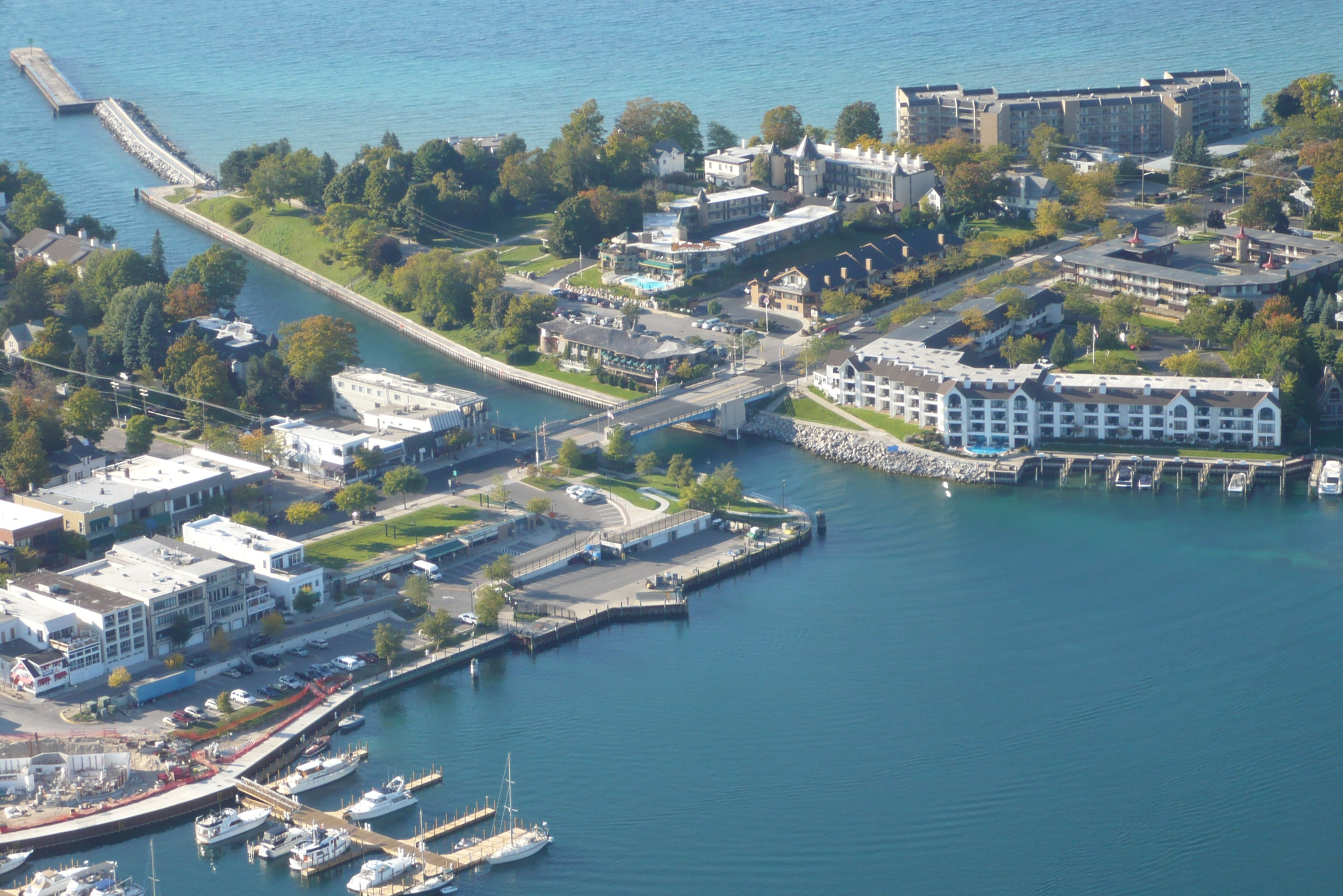 Charlevoix, between Lake Michigan and Lake Charlevoix. The drawbridge is along US 31.